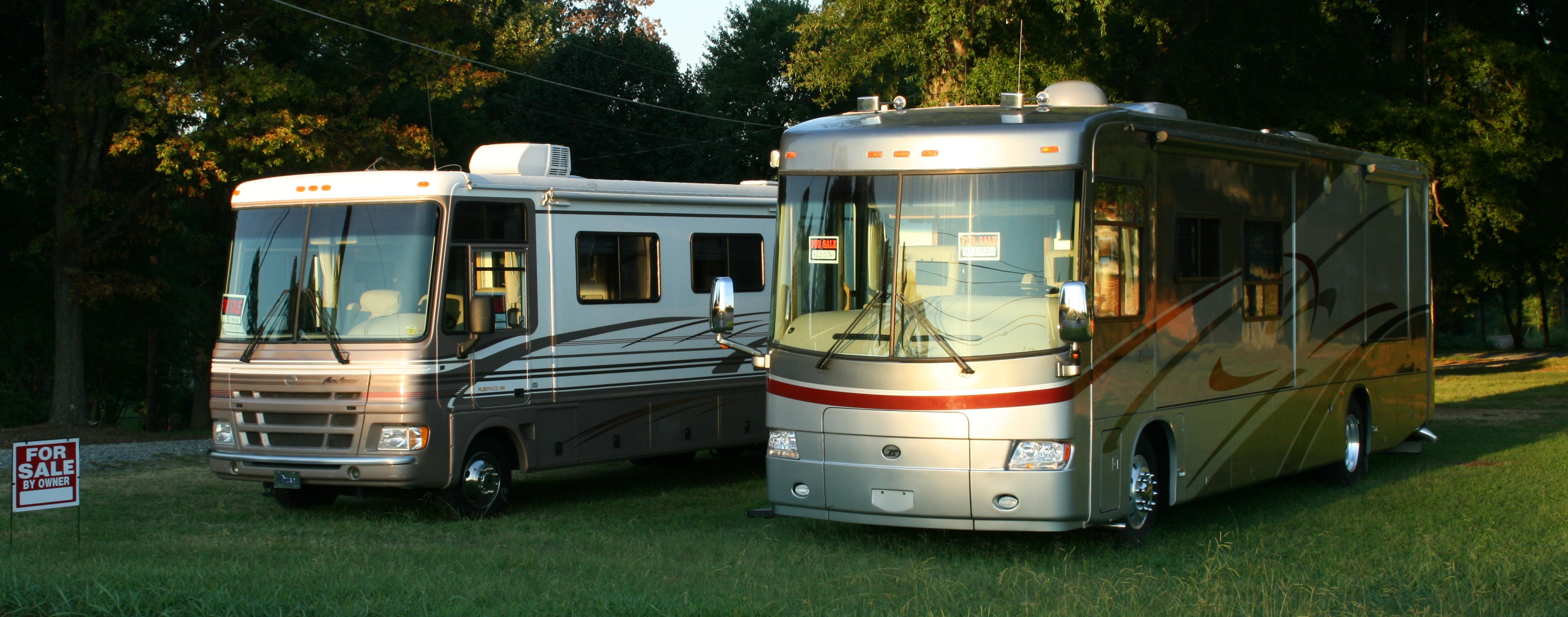 A pair of motorhomes for sale by owner — displayed on North Roxboro Street in Durham, North Carolina.